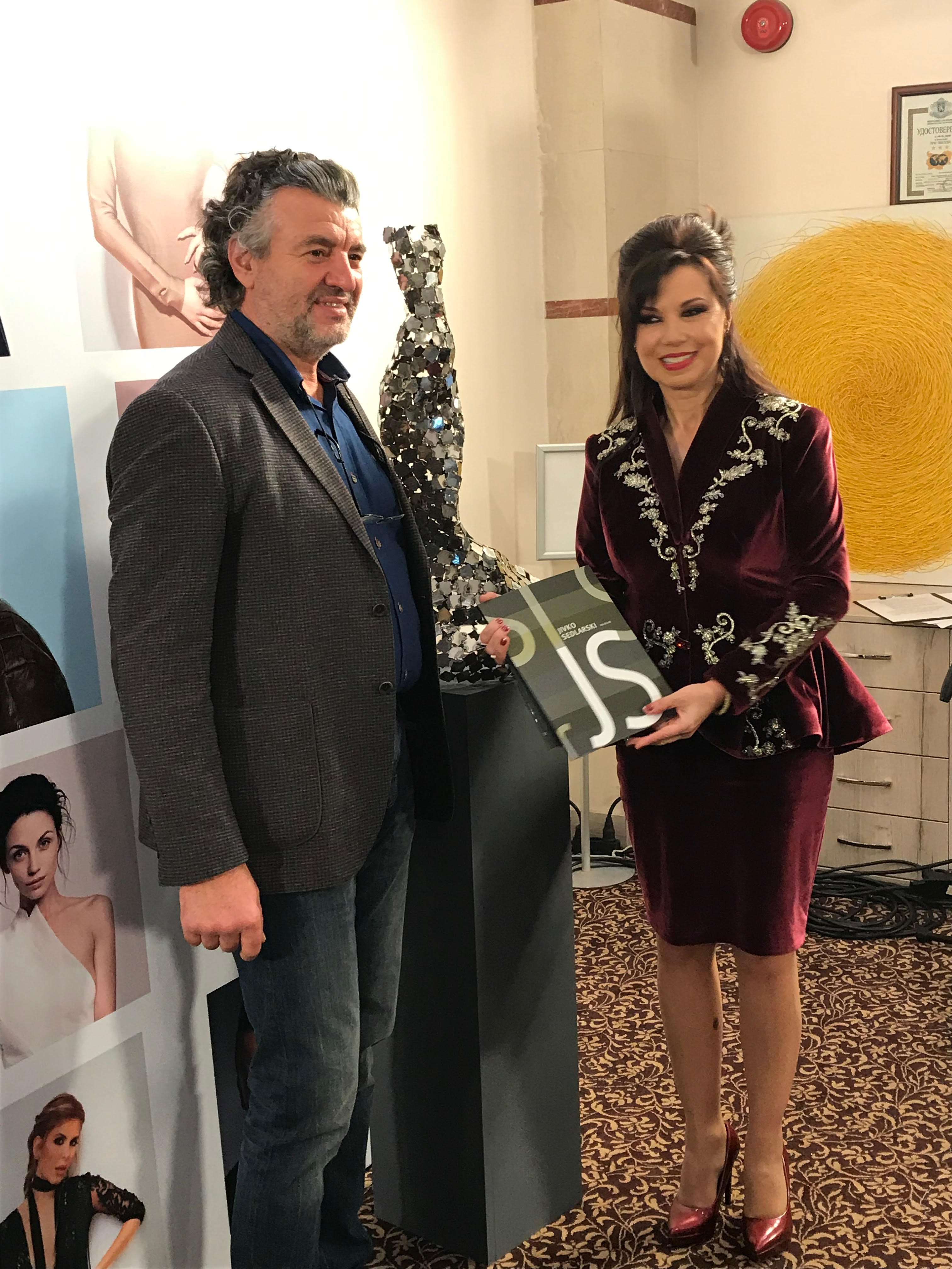 BG Fashion Icon in Sofia 2018